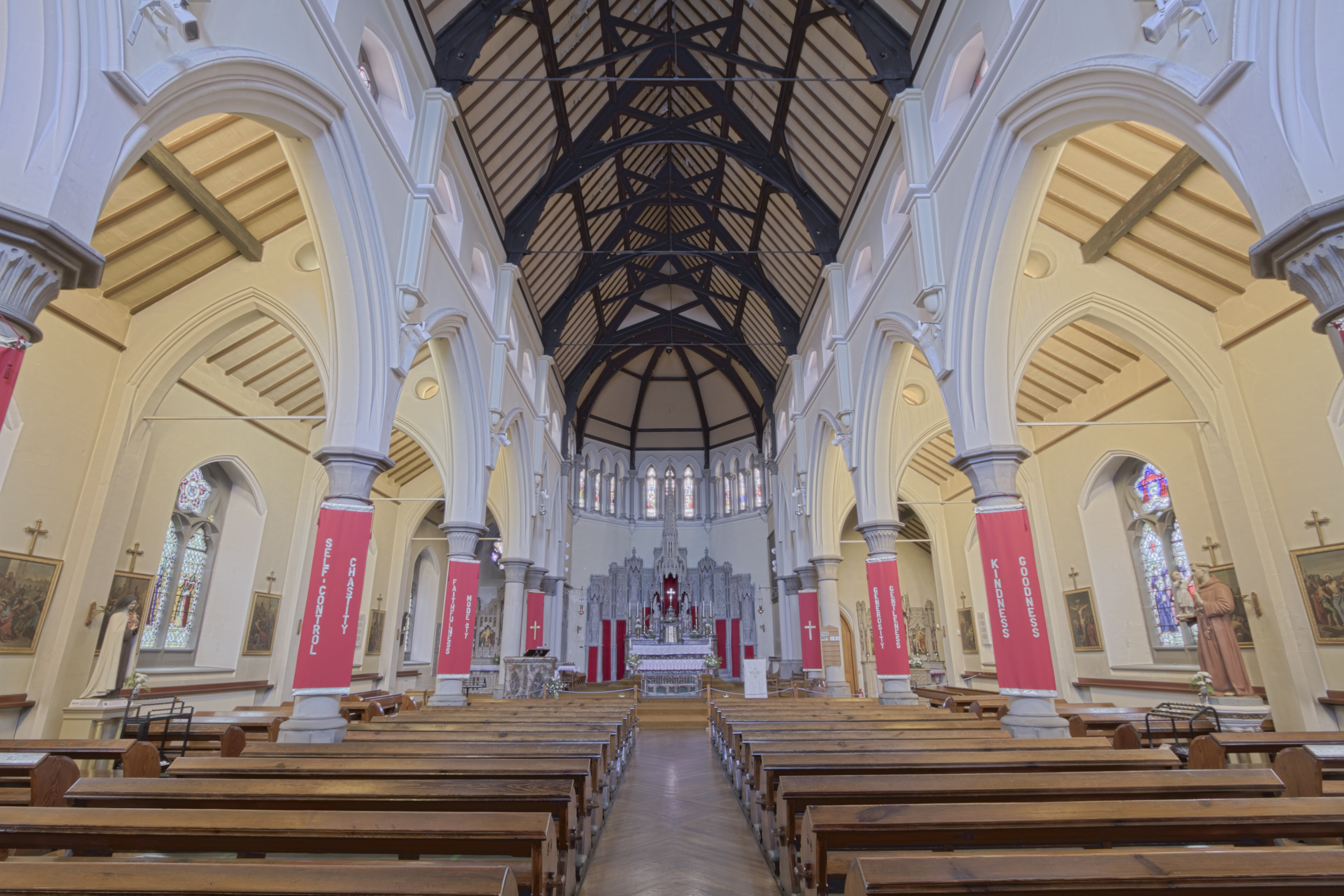 Inside St Mary's Roman Catholic church, Lord Street, Fleetwood, Lancashire, England, looking northeast to the apsidal chancel